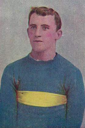 Cigarette card of Arthur Britt from the 1905 Wills Past and Present Champions series.